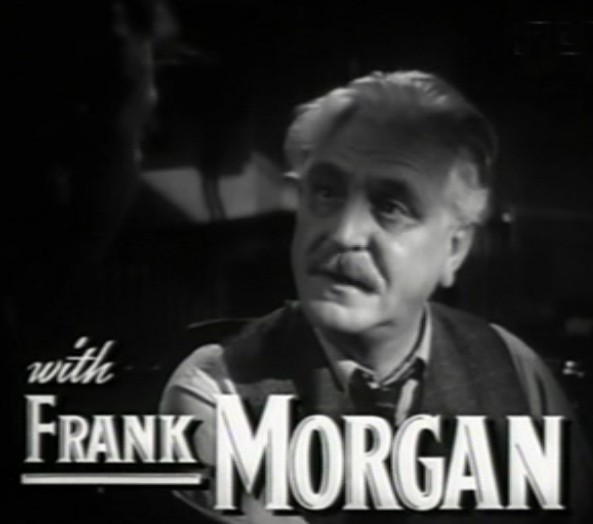 Cropped screenshot of Frank Morgan from the trailer for the film The Human Comedy.